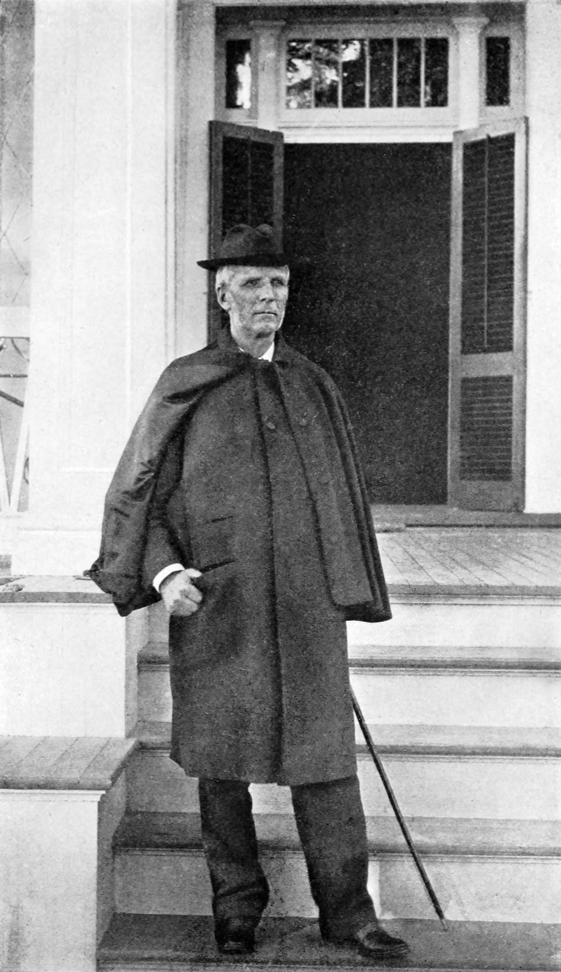 Samuel Chapman Armstrong. Photographed in old age